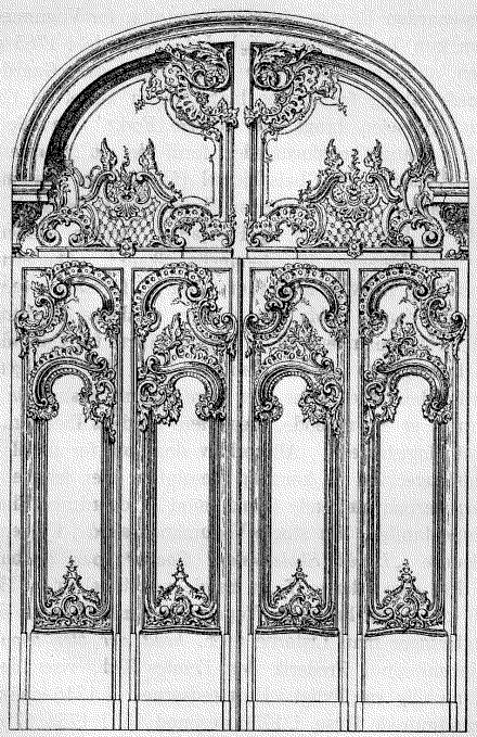 Drawing for the main portal door at Christiansborg Palace, Copenhagen, by Nicolai Eigtved (1701-1754). The door, executed by carver Louis-Augustin Le Clerc, burned with the palace in 1794.